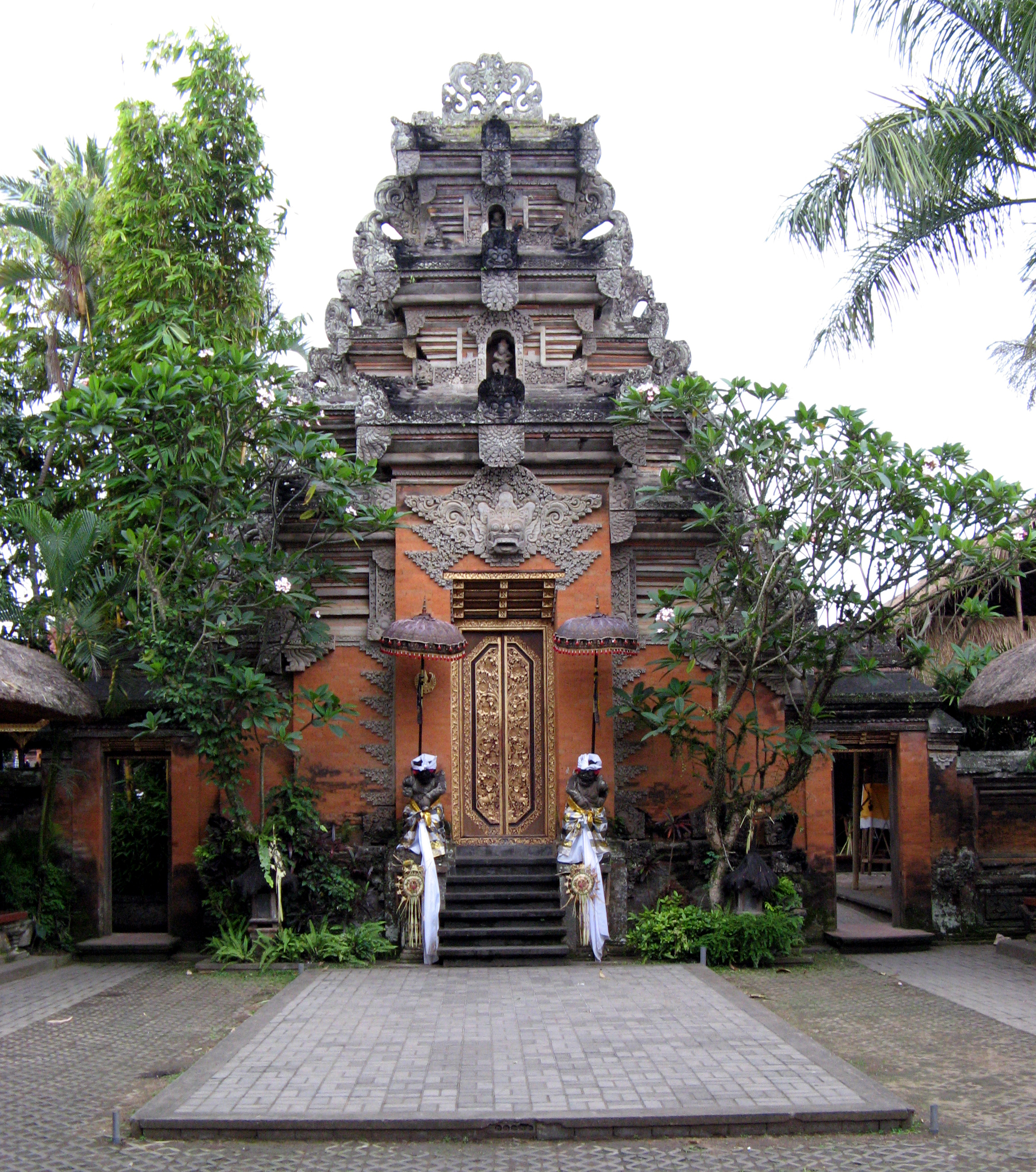 Located in the center of the Ubud Palace district, Puri Saren Agung is the former palace of the rulers of Ubud, and the current home of some of their descendants. It was built in the early 19th century. Today, the non-residential parts of the compound have been repurposed into a tourist and cultural venue that includes a small hotel, shrines, gardens, pavilions (balés), and a performance stage. The puri's entrance gate retains many traditional elements: three entrance doors, a gopuram (India)-style tower, guardian statues wrapped in honorific cloth, and a kala (India - monster mask) over the central door.